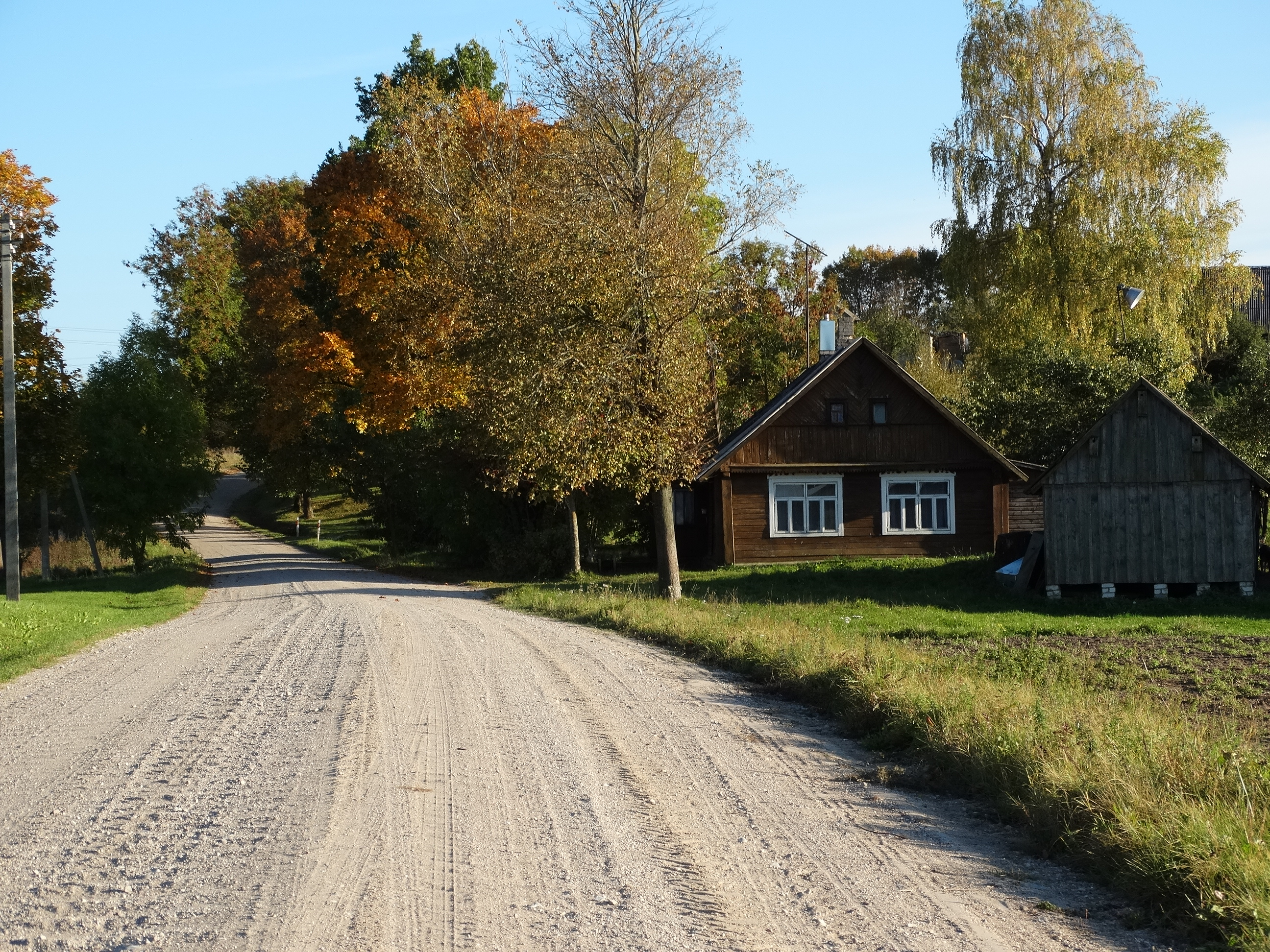 Ringailiai, Kaišiadorys district, Lithuania